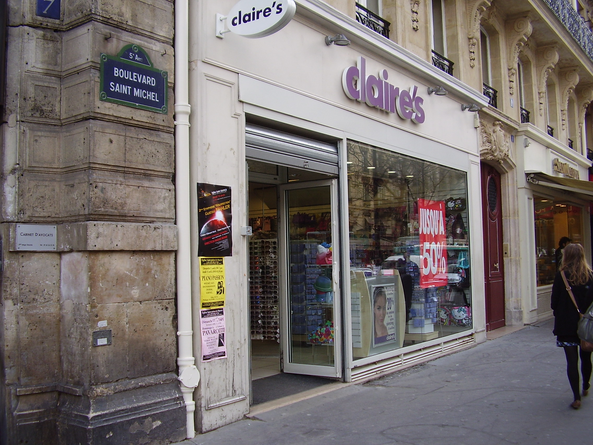 A Claire's location - 1 Boulevard Saint Michel, 5th arrondissement of Paris